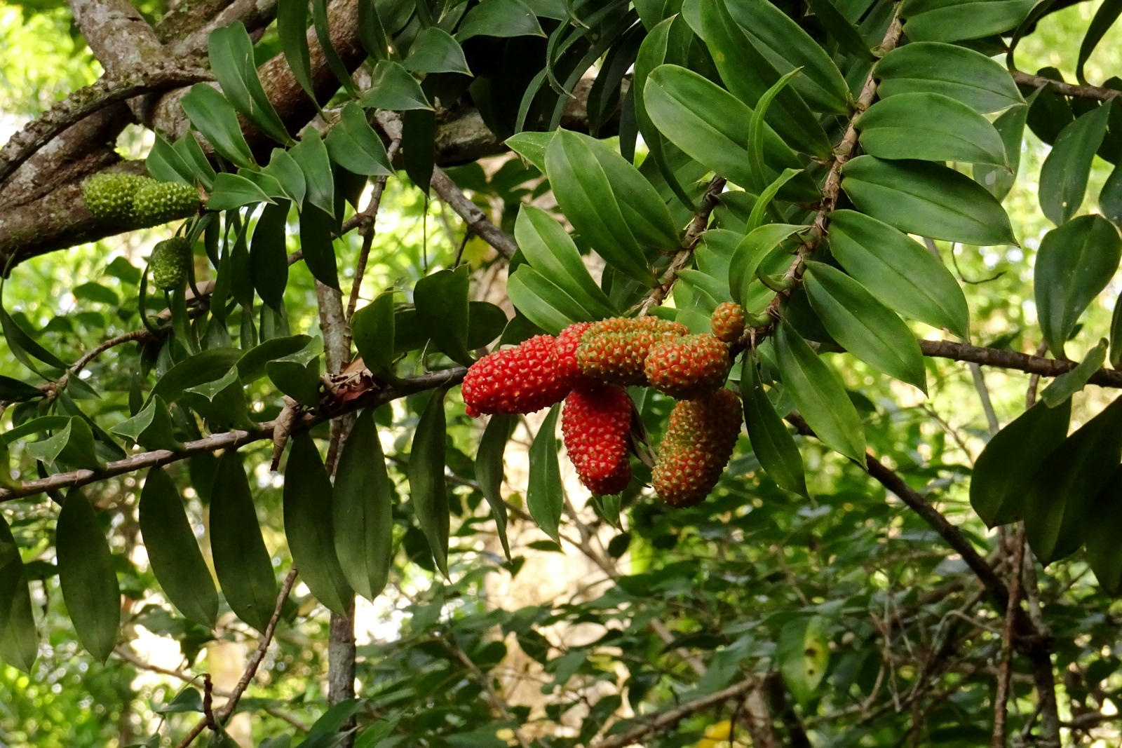 Red raspberry alike fruit, but much larger. This large climber has attracted my attention because it looks like from another era, and a dinosaur should be nearby. No wonder, - it is an extant genus of family Pandanaceae - the ancient family dating from the early to mid-Cretaceous. Freycinetia scandens - Climbing Pandanus, or Broad-leaved climbing pandan. Named after Admiral Louis de Freycinet, a 19th-century French explorer. A slender vine , climbing by aerial roots. Australian native. I found it in rainforest near Eumundi, Sunshine Coast, Australia DSC01143